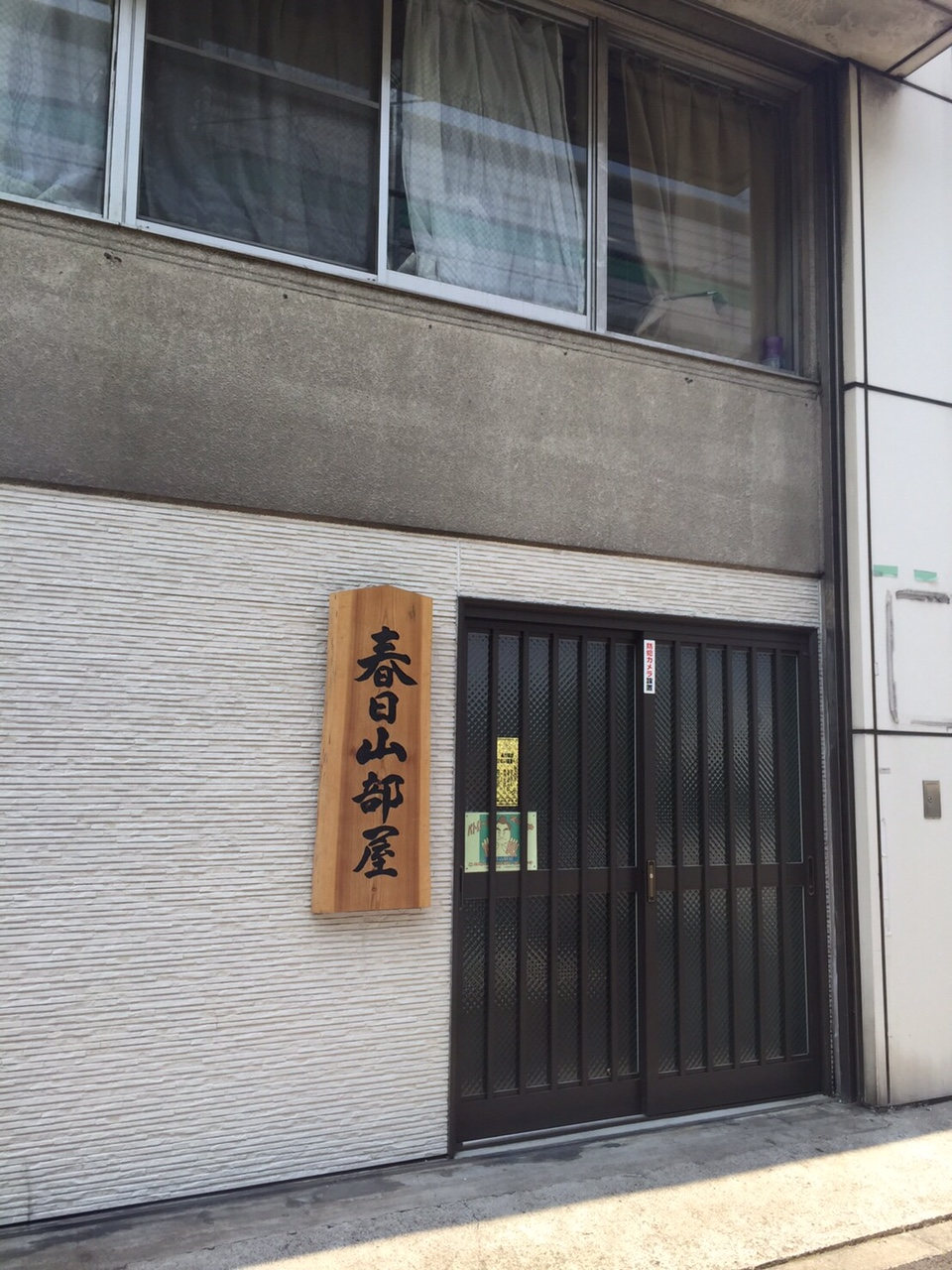 Taken outside new stable building May 2016